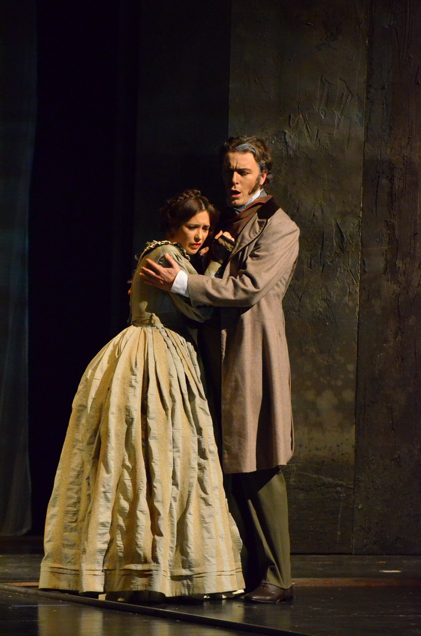 "Simon Boccanegra ", an opera with a prologue and three acts by Giuseppe Verdi to an Italian libretto by Francesco Maria Piave, based on the play Simón Bocanegra (1843) by Antonio García Gutiérrez; directed by Caterina Panti Liberovici; Opera of the Serbian National Theatre, Novi Sad, 2013/14; Danijela Jovanović, Vasa Stajkić Srpski (latinica): „Simon Bokanegra”, opera sa prologom u tri čina Đuzepe Verdija sa libretom Italijana Frančeska Maria Pjave Opera SNP, Novi Sad, 2013/14. prema istoimenoj drami (iz 1843) Antonija Garsije Gutijeresa u režiji Katerine Panti Liberoviči; Opera Srpskog narodnog pozorišta, Novi Sad, 2013/14; Danijela Jovanović, Vasa Stajkić Српски (ћирилица): „Симон Боканегра“, опера са прологом у три чина Ђузепе Вердија са либретом Италијана Франческа Мариа Пјаве Опера СНП, Нови Сад, 2013/14. према истоименој драми (из 1843) Антонија Гарсије Гутијереса у режији Катерине Панти Либеровичи; Опера Српског народног позоришта, Нови Сад, 2013/14; Данијела Јовановић, Васа Стајкић